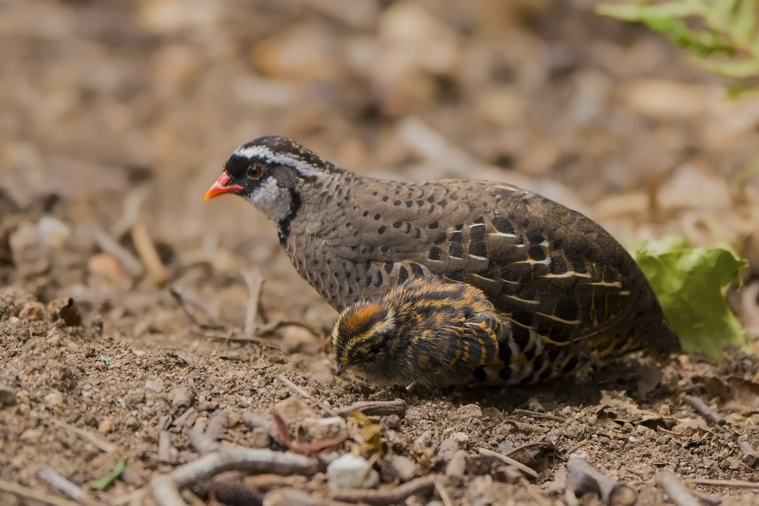 The painted bush quail (Perdicula erythrorhyncha) is a species of quail found in the hill forests of India. They move in small coveys on hillsides and are distinguished by their red bills and legs. They have a liquid alarm call and small groups will run in single file along paths before taking flight when flushed. These quails are usually seen in small groups of 8 to 10. When flushed they scatter in different directions and then begin rally calling to reunite. Source: Wiki